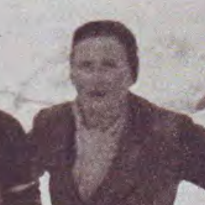 Evelyn Pinching and Gerda Paumgarten from 1939 Canadian Ski Book from an article by Bernice Duthie